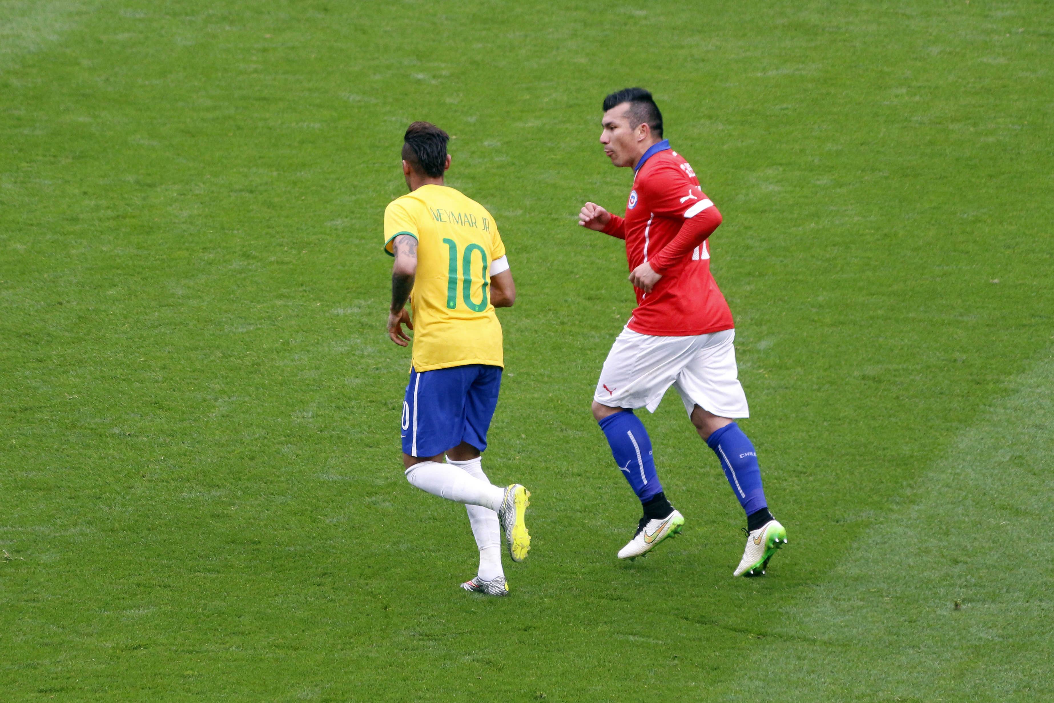 Neymar Gary Medel Brazil vs Chile, International Friendly, 29th March, 2015, Emirates Stadium, London